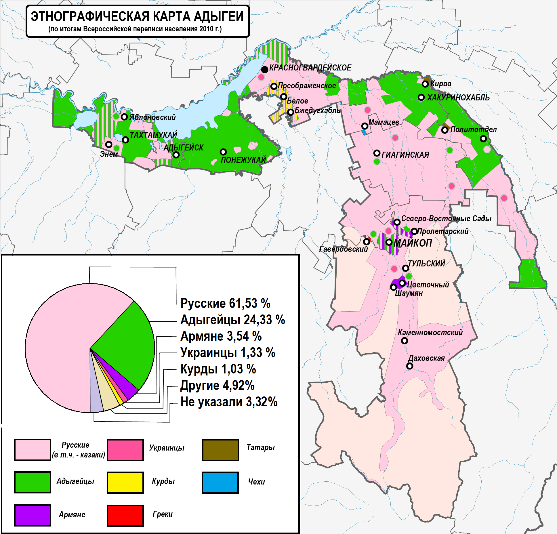 Ethnographic map of Adygeа (2010)